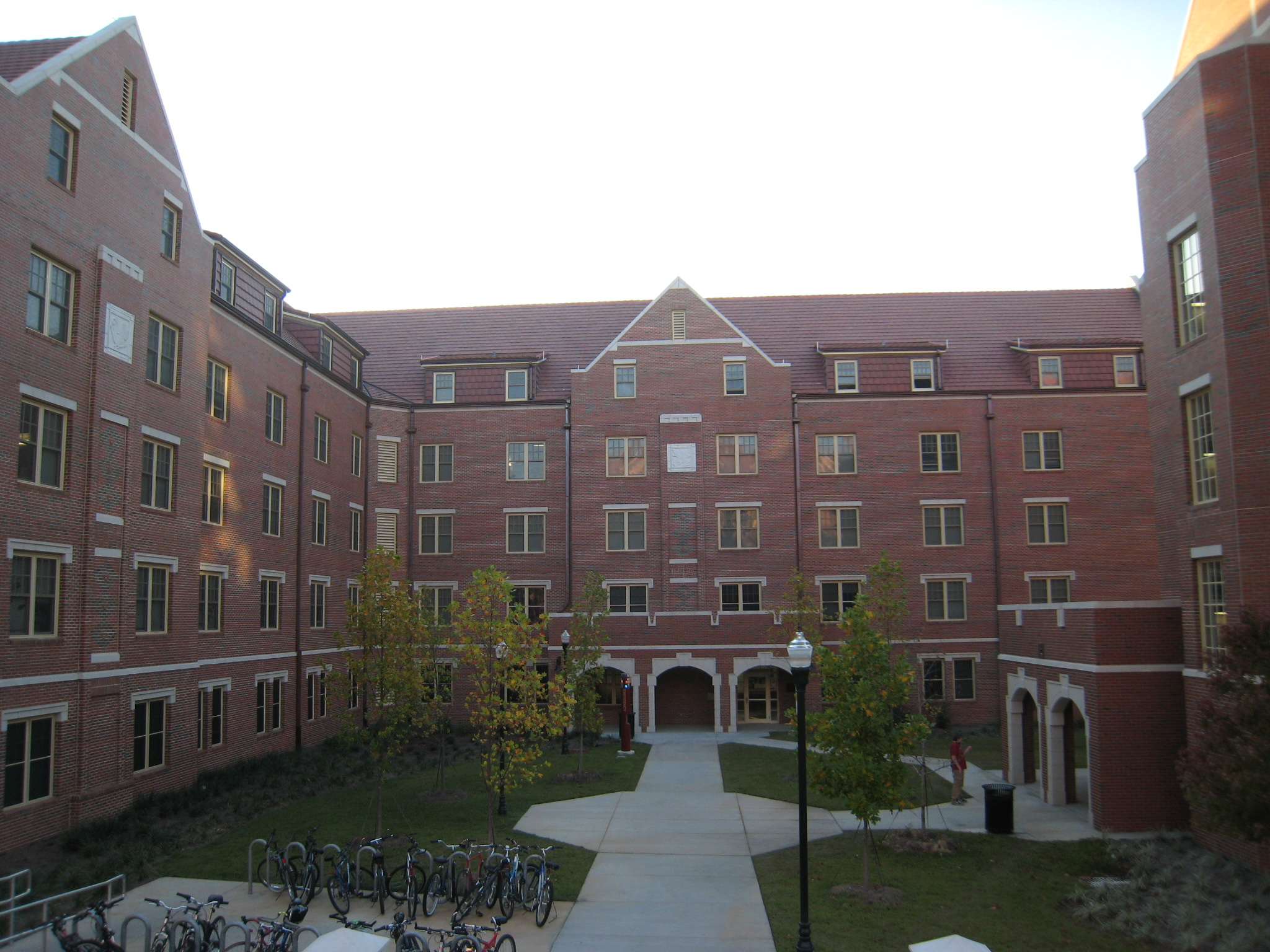 Wildwood Hall, FSU